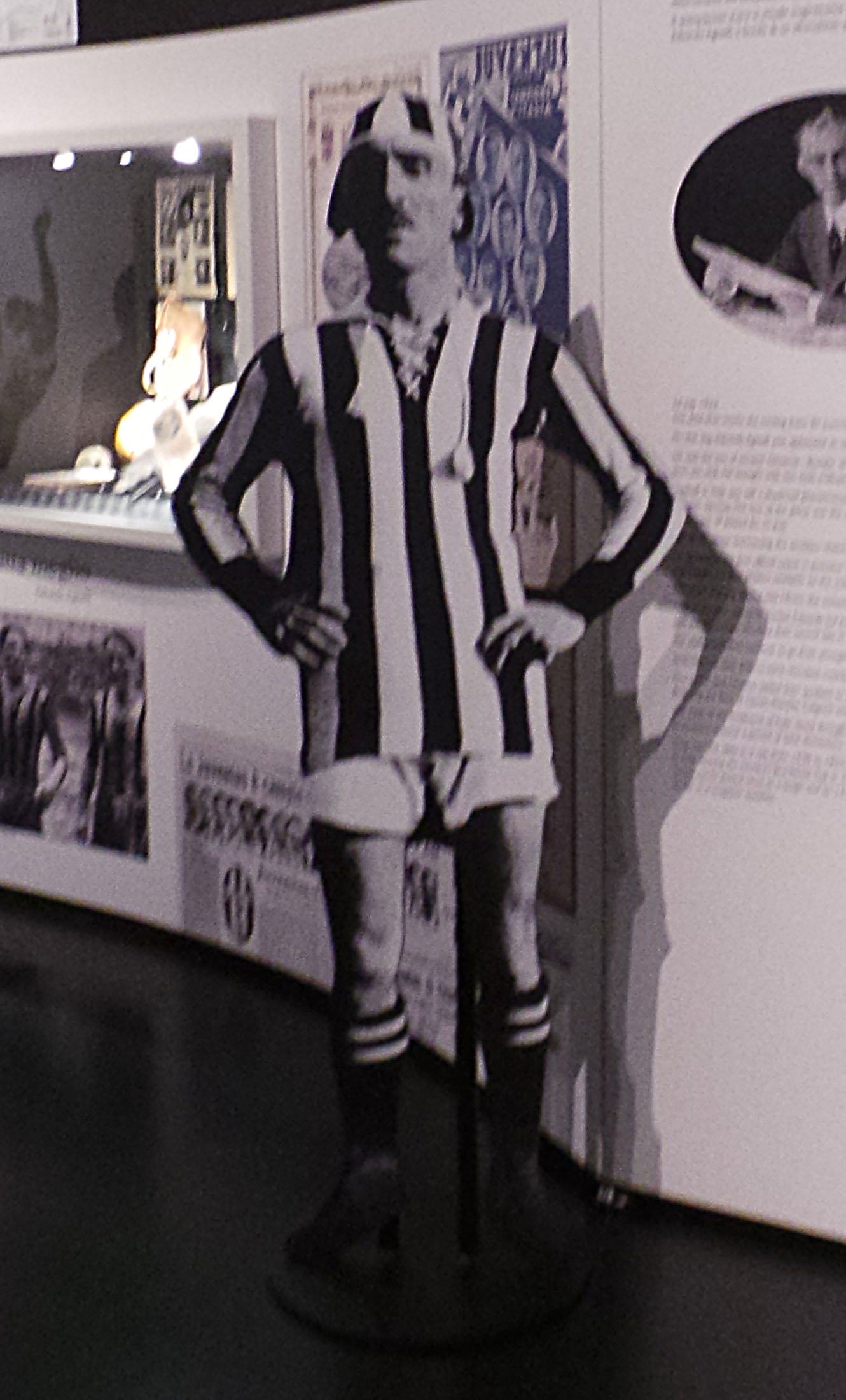 Cutout of Carlo Bigatto (1895–1942), first Juventus FC captain, at the Juventus Museum, Turin, Italy.